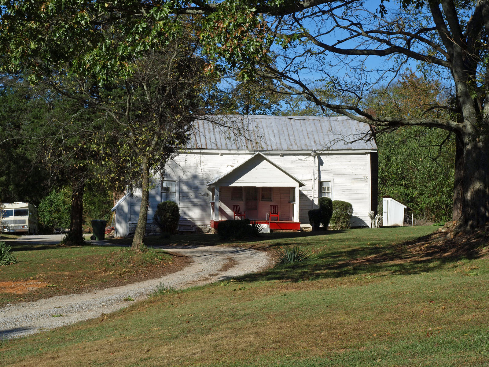 The Jude-Crutcher House in Huntsville, Alabama, listed on the National Register of Historic Places.